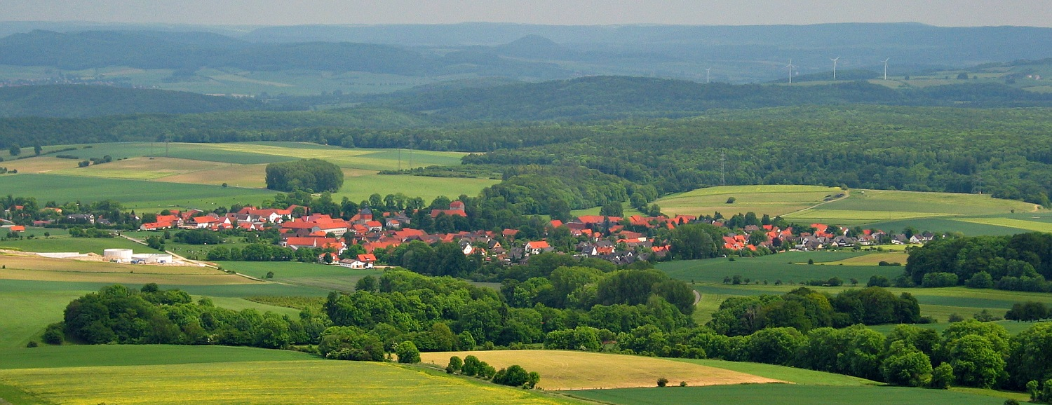 Jühnde as seen from the Gaußturm observation tower on Hohen Hagen. Image was unsharp masked, cropped, sharpened and eresized using Gimp.